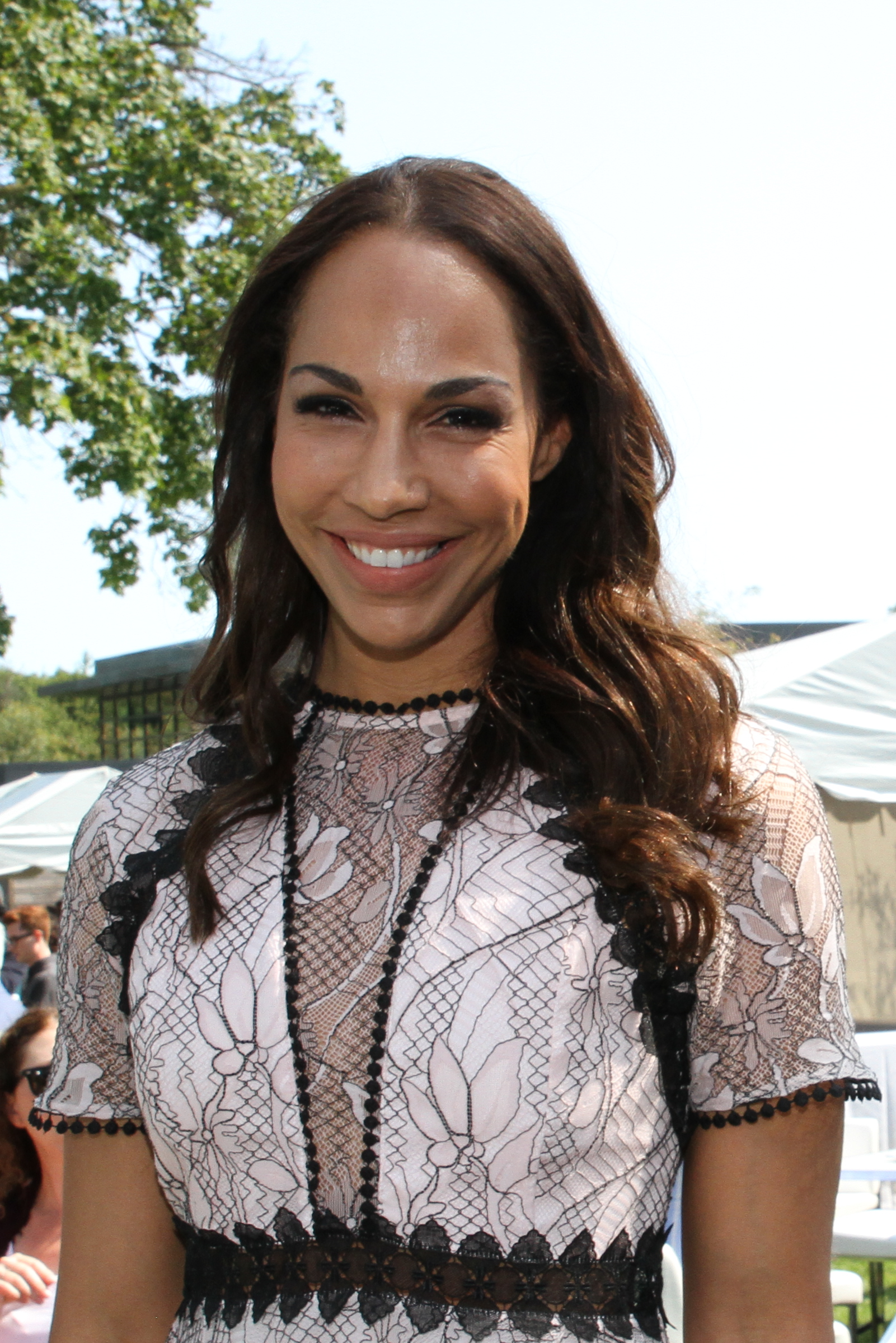 Amanda Brugel at the 2017 CFC Annual BBQ Fundraiser. Photo by Danilo Ursini.